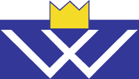 Logo van het Koninklijk Fanfarekorps Wilhelmina